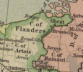 This map come from the map collection of University of Texas, specifically from: Central Europe in 1477, from Historical Atlas by William R. Shepherd, 1926. It is in the public domain (